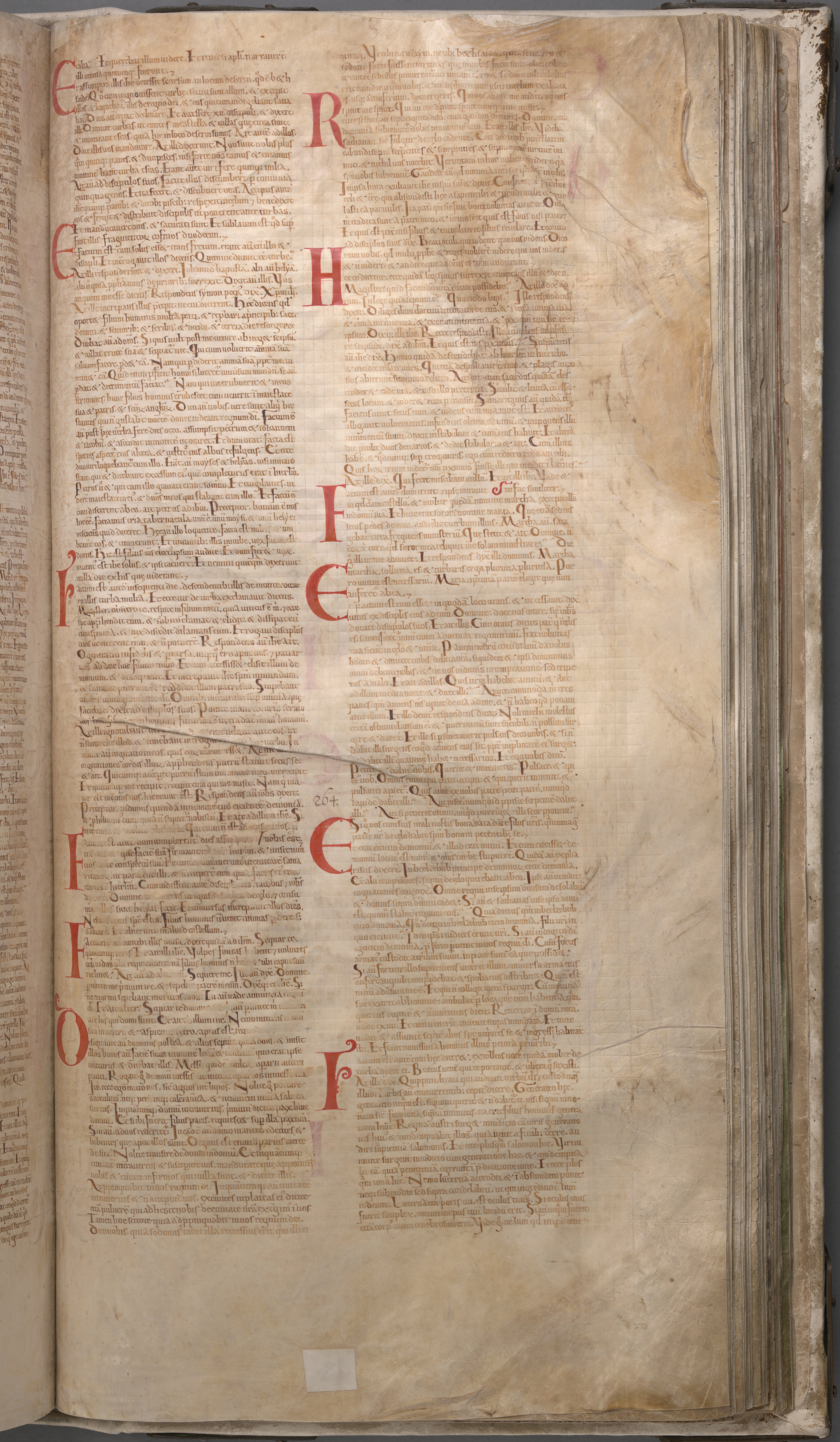 Giant Book) is the largest extant medieval manuscript in the world. It is also known as the Devil's Bible because of a large illustration of the devil on the inside and the legend surrounding its creation. It is thought to have been created in the early 13th century in the Benedictine monastery of Podlažice in Bohemia (modern Czech Republic). It contains the Vulgate Bible as well as many historical documents all written in Latin. During the Thirty Years' War in 1648, the entire collection was taken by the Swedish army as plunder, and now it is preserved at the National Library of Sweden in Stockholm, though it is not normally on display.